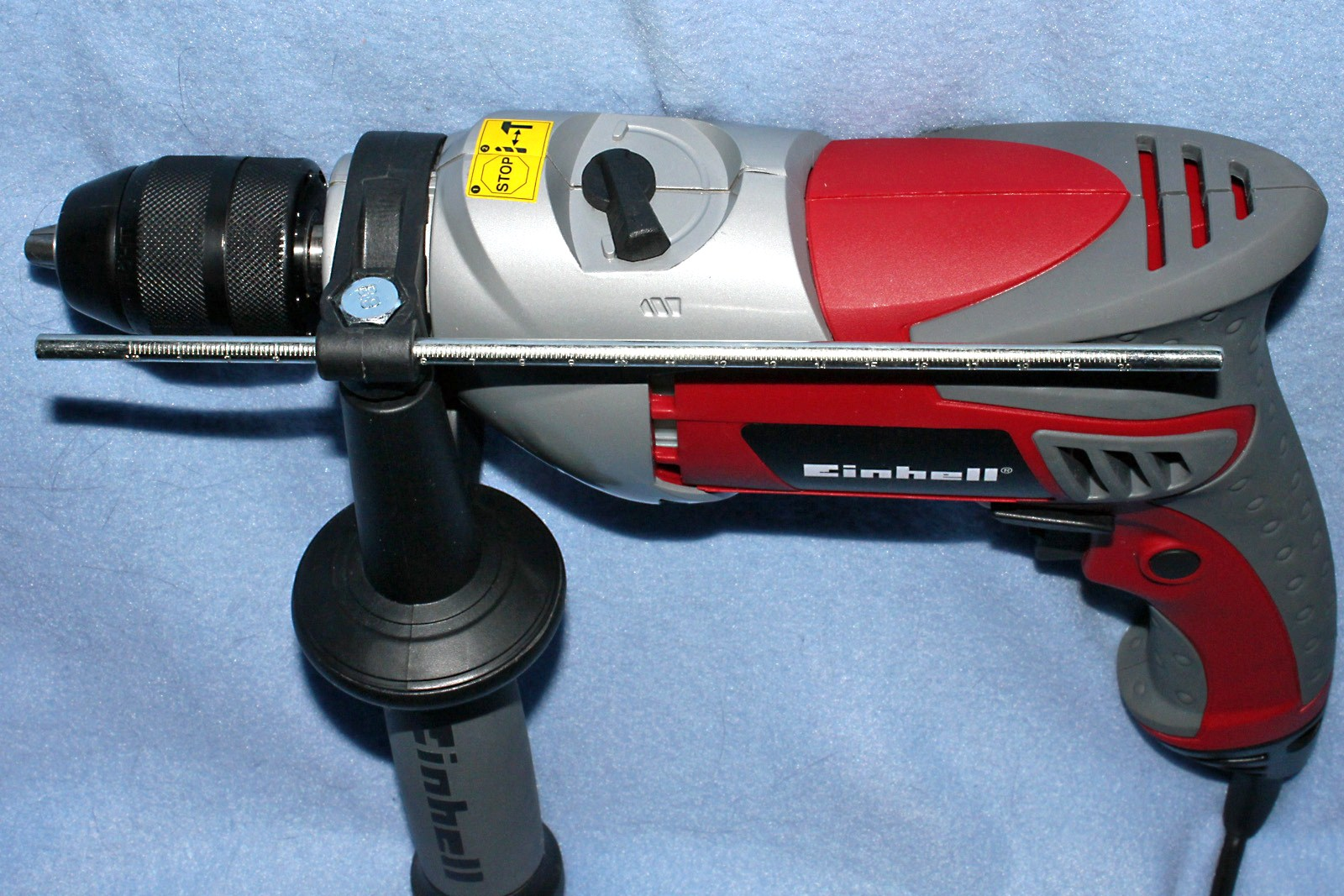 Hammer drill made by Einhell Germany